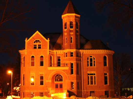 This is a photo that I, Tlandegent captured of Zwemer Hall. It is the administrative building for the campus of Northwestern College of Iowa. I own the rights to this picture and understand its terms of use on wikipedia.